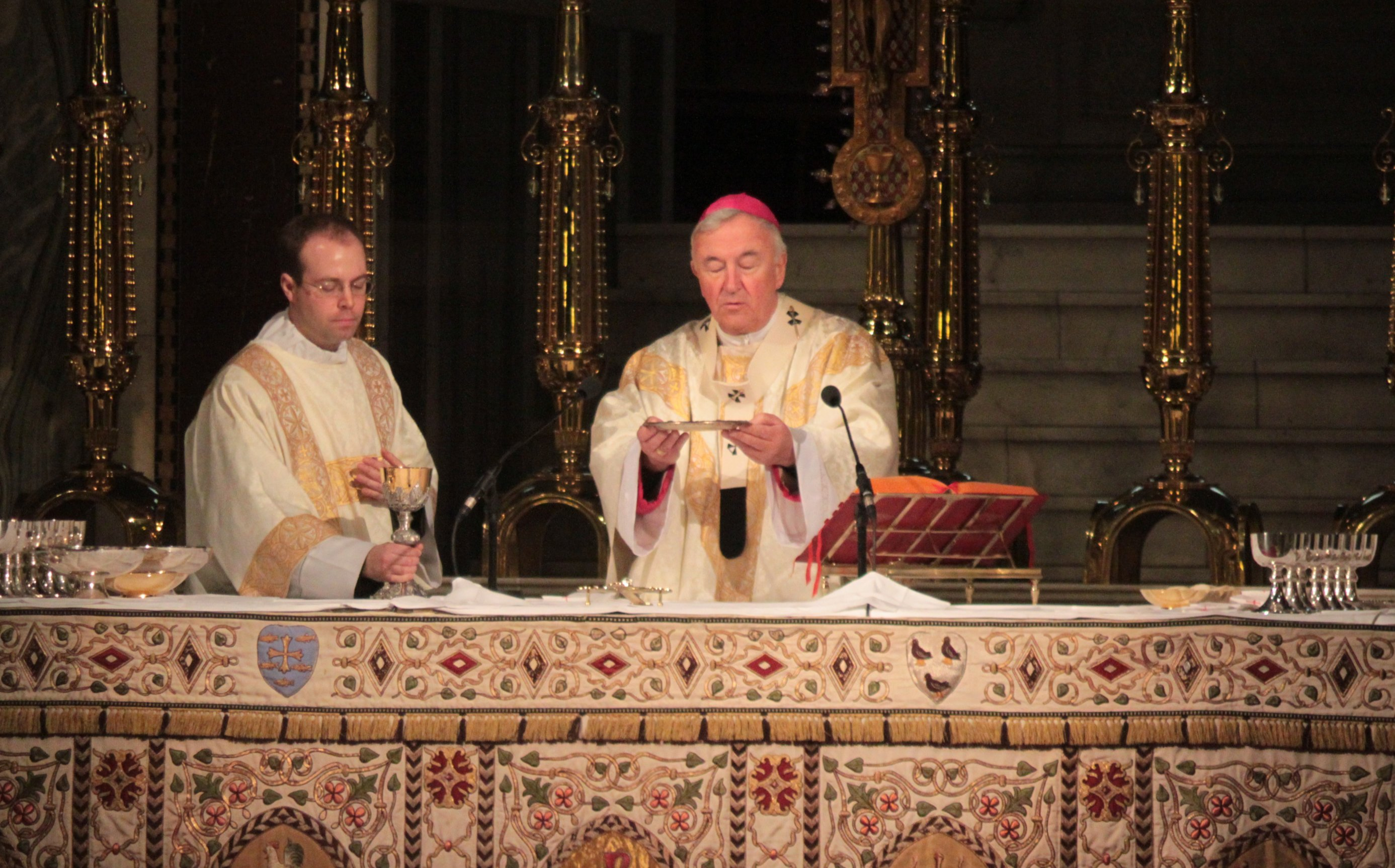 Offertory or Preparation of the Gifts (Archbishop Vincent Nichols)